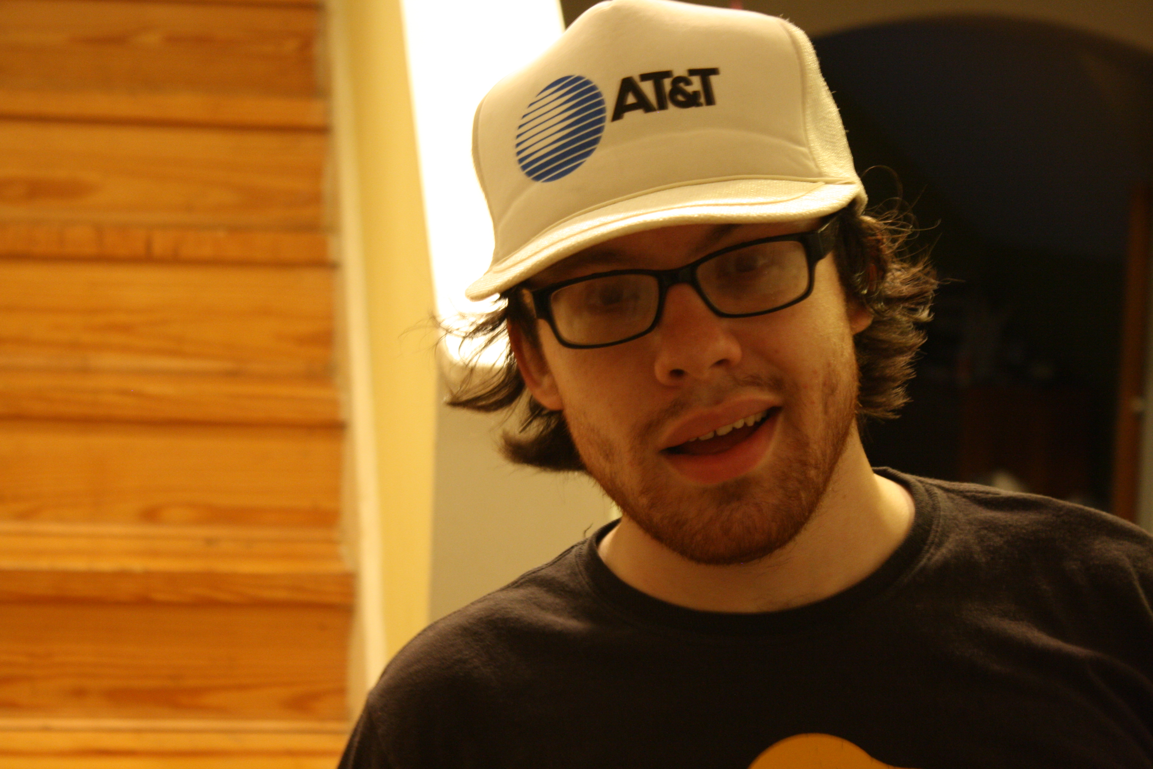 Self-portrait of weev. Photo of Weev from his livejournal. link.